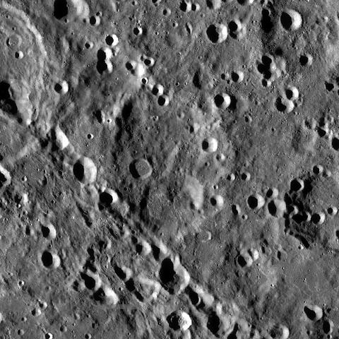 LRO-WAC Weyl at center (almost indistinct), Fersman at left border, Orientale chains below